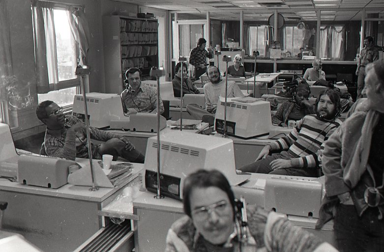 Title: Emergency personnel in call center Creator: City of Boston - Mayor's Office Date: 1978 February Source: Mayor Kevin White photographs, Collection # 0245.002, Chronological file File name: white-1978-02-008 Rights: Copyright City of Boston Citation: Mayor Kevin White photographs, Collection # 0245.002, Chronological file, 1978 February: Blizzard, City of Boston Archives, Boston